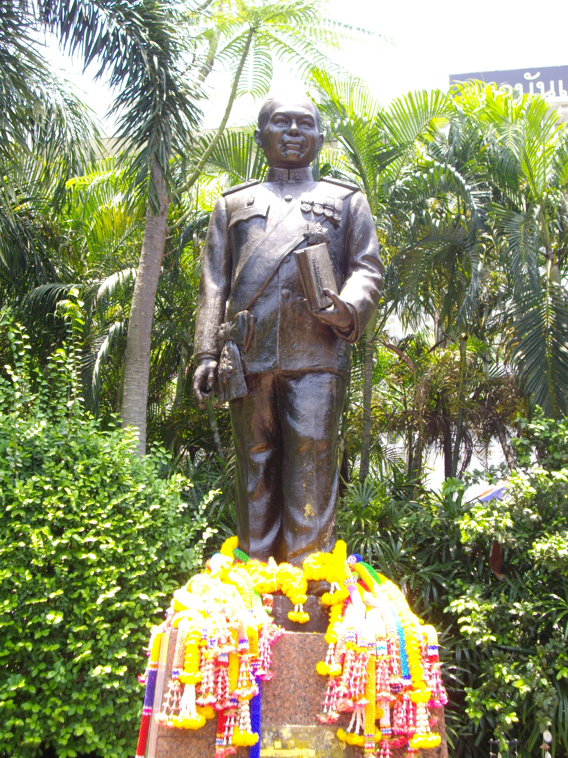 Monument of Phra Chuangkasetsilapakan (พระช่วงเกษตรศิลปการ), situated in front of Kasetrathikarn Institute, inside Kasetsart University, Bangkok, Thailand.